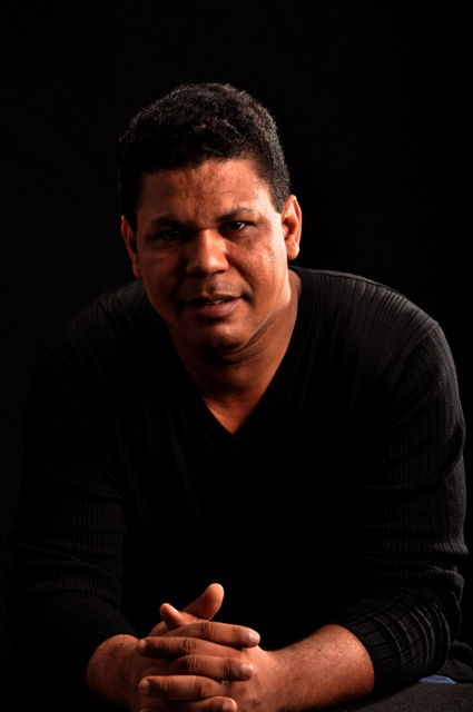 Portrait of Fernando Cabrera